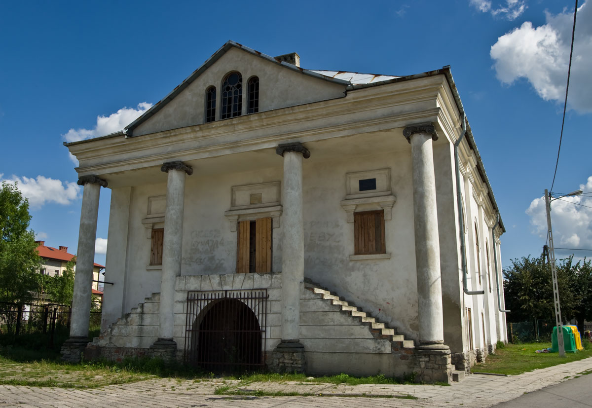 Synagogue in Klimontów